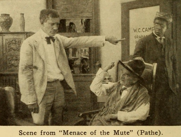 Scene from the American silent film, The Menace of the Mute, published in The Moving Picture World, page 1156, November 6, 1915. Other information Cropped from page 1156.